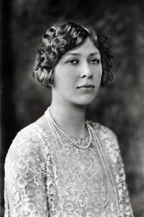 Princess Mary, the Princess Royal, wife of the 6th Earl of Harewood